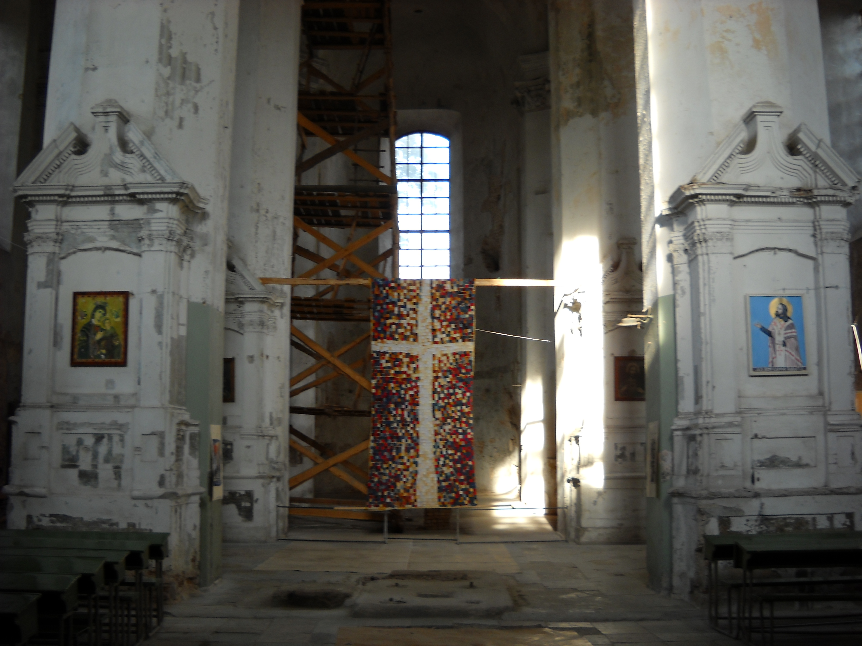 Church of St. Trinity in Vilnius (greek catholic). The interior during renovation works, 2009.